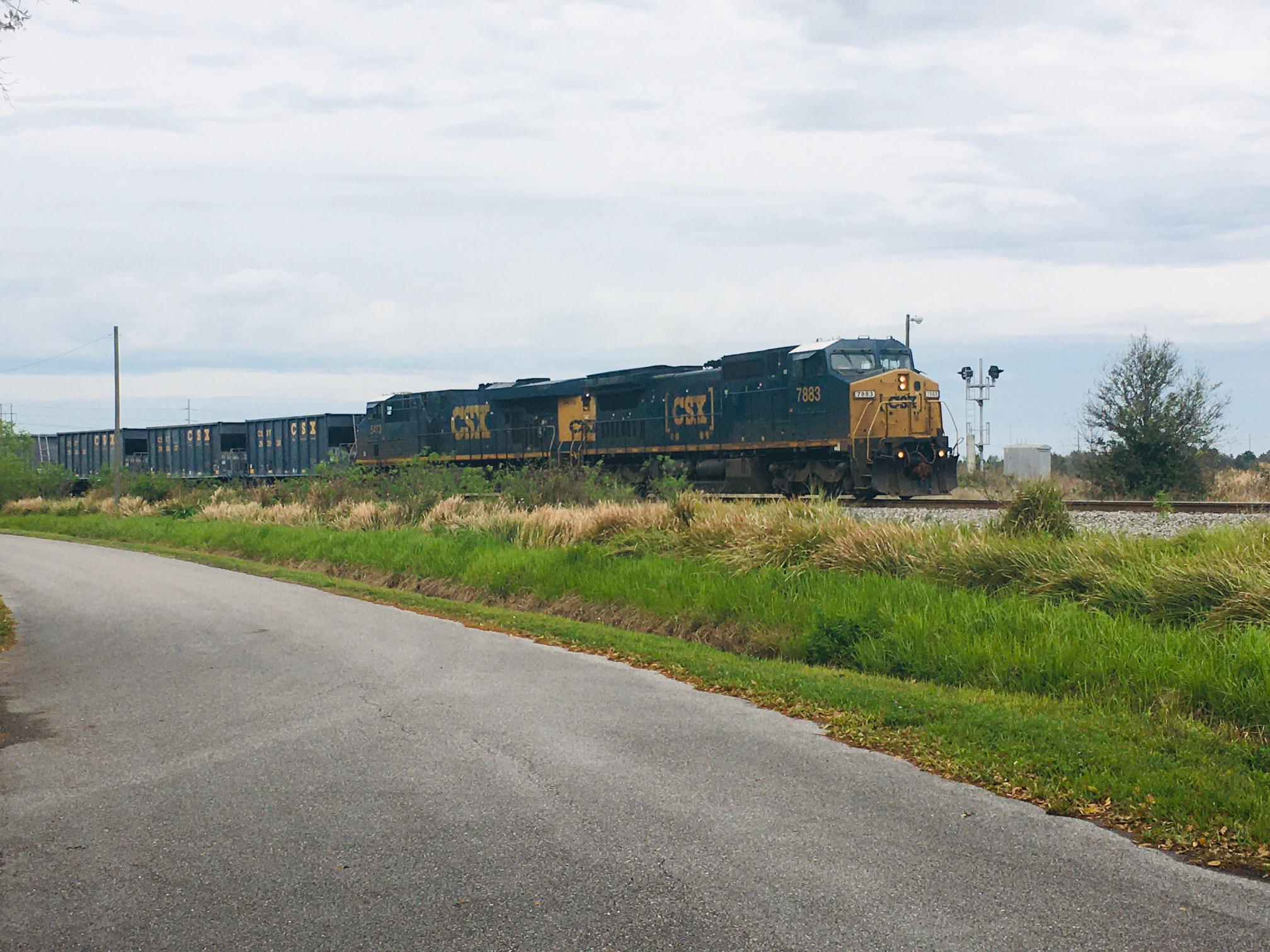 K343 passing Bradley Junction